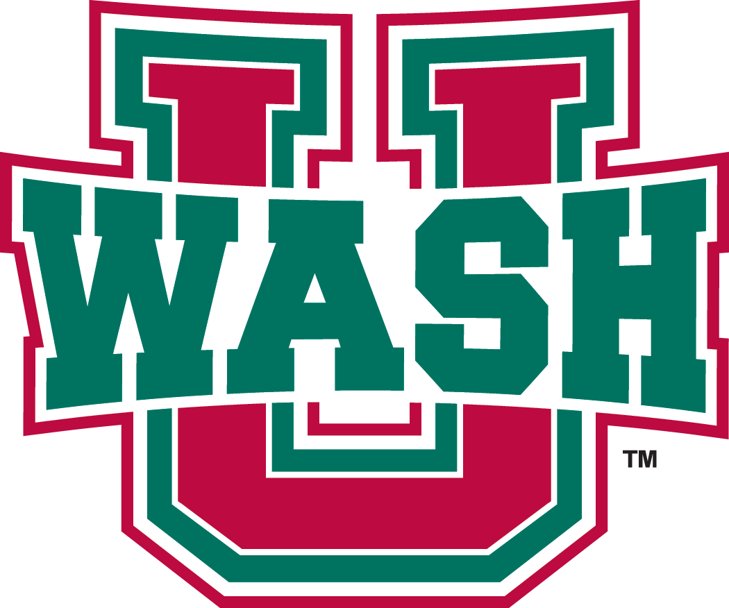 The logo of Washington University Bears